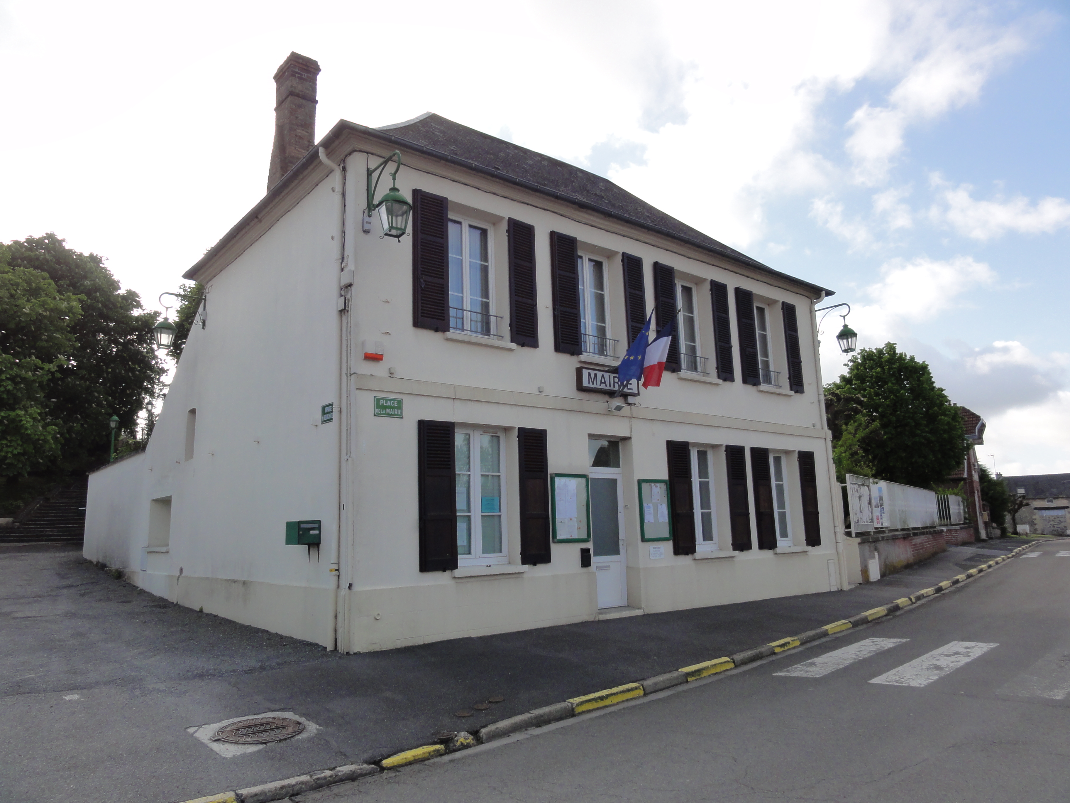 Clacy-et-Thierret (Aisne) mairie